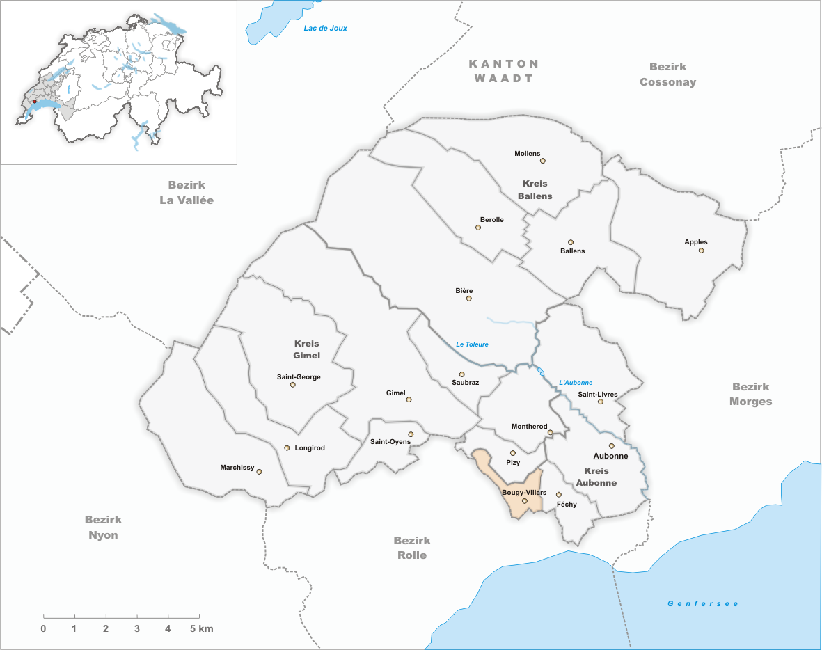 Municipality Bougy-Villars